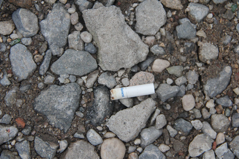 discarded cigarette butt on Myrtle Avenue, Brooklyn, as collected by Heather Dewey-Hagborg for Stranger Visions